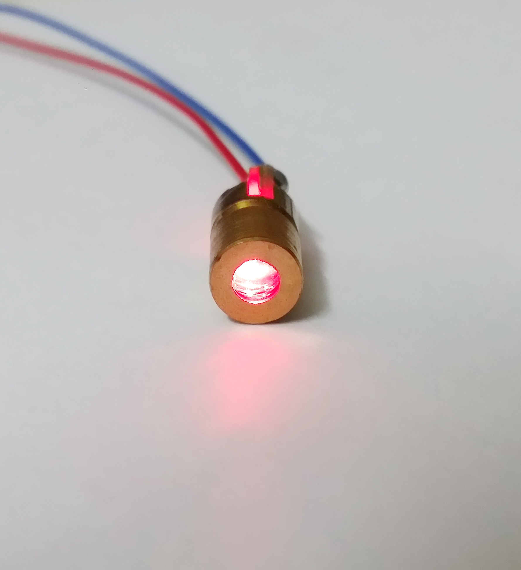 Metal covered Laser diode switched on